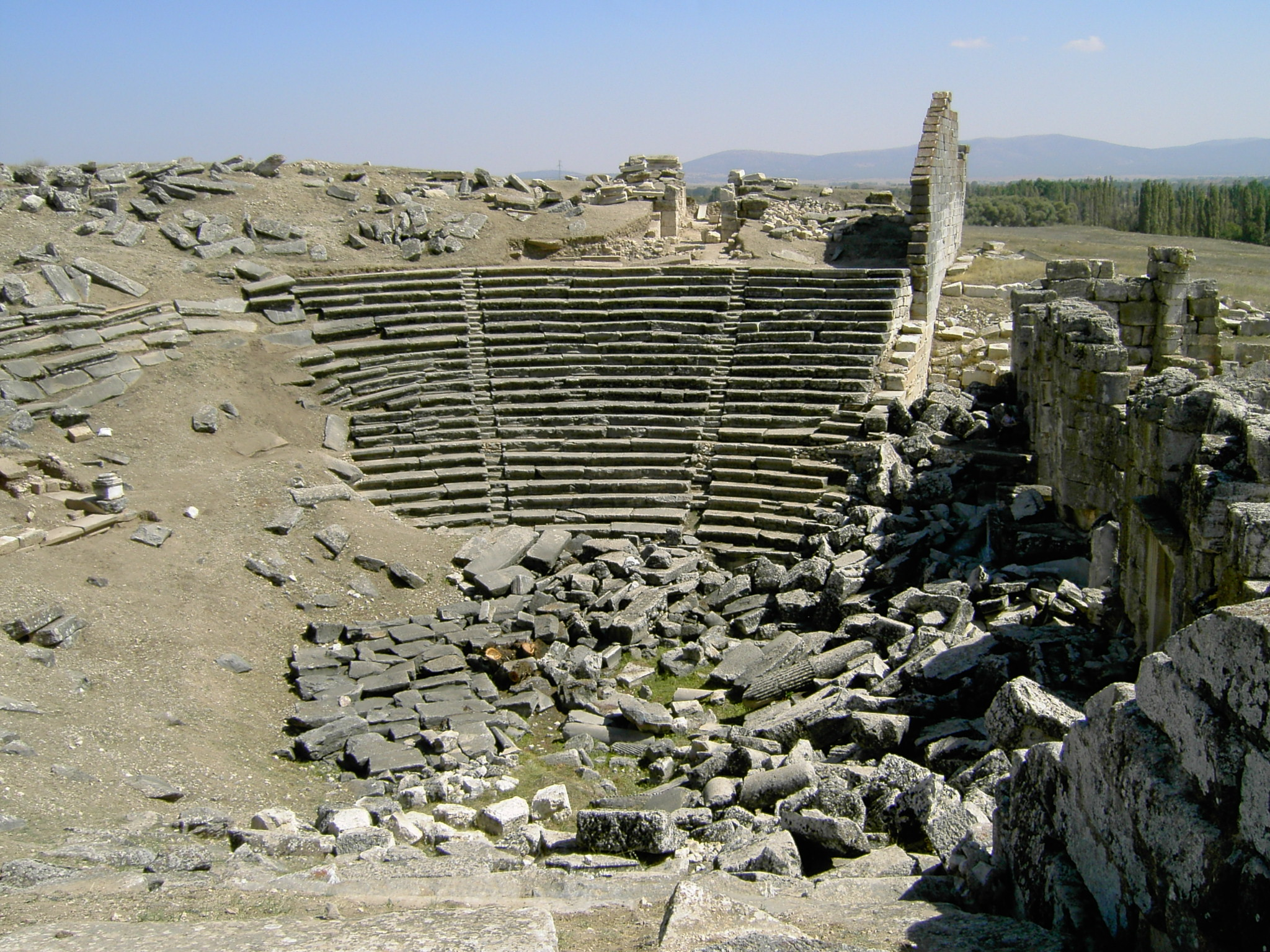 Ancient theather of Aizanoi, before the start of excavationsTürkçe: Kazı çalışmaları başlamadan önceki etkileyici hali ile antik Aizanoi Tiyatrosu